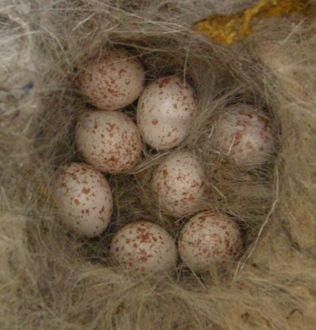 Egg Great tit (Parus major)